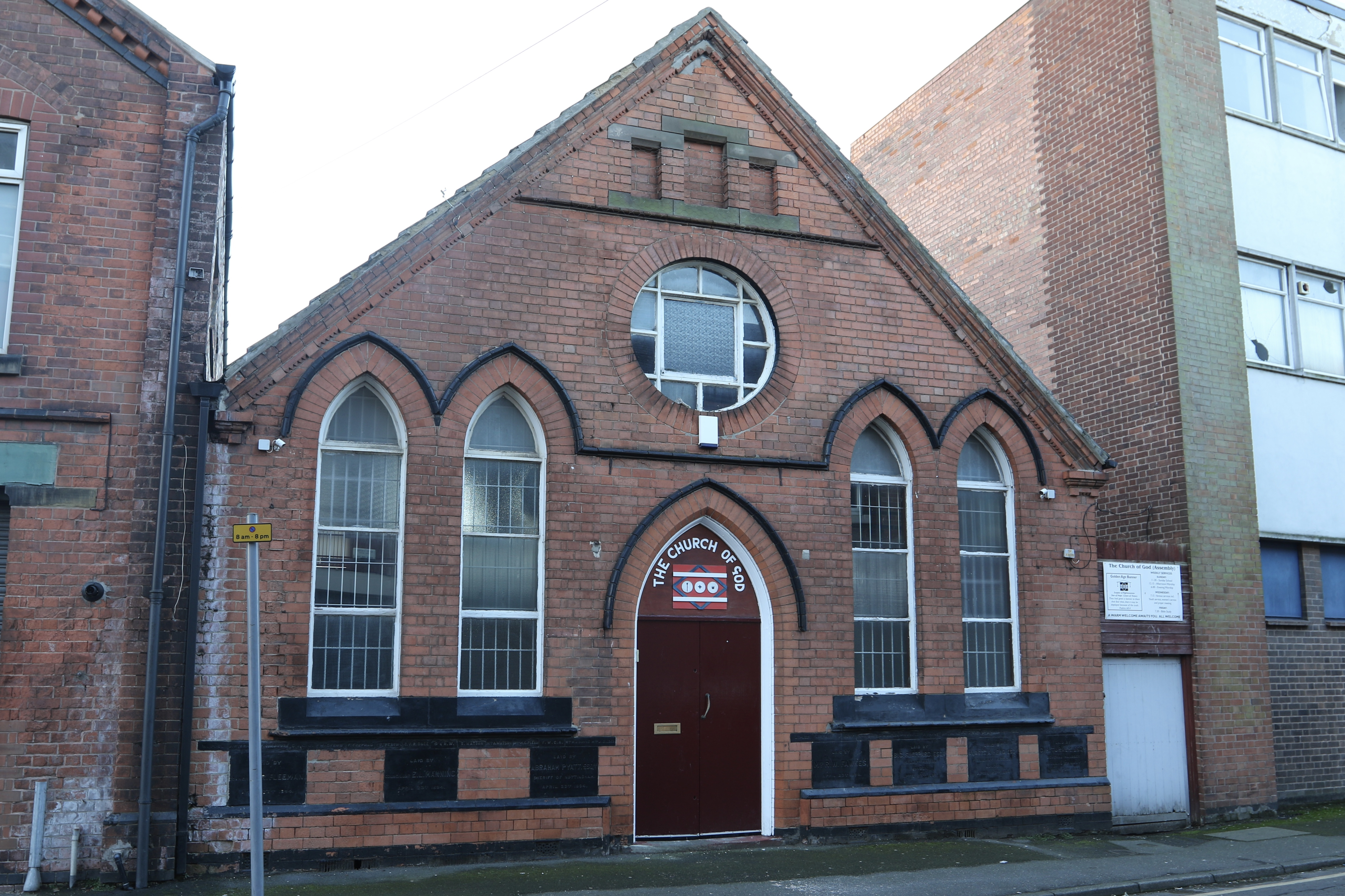 Now the Church of God Assembly